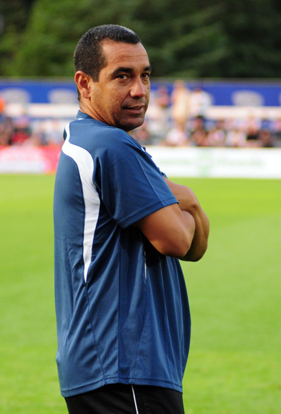 Photo of soccer player and coach Crizam César de Oliveira Filho, also known as Zinho